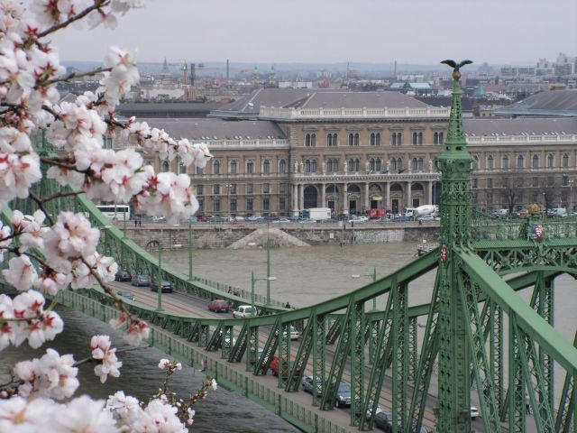 Corvinus University of Budapest